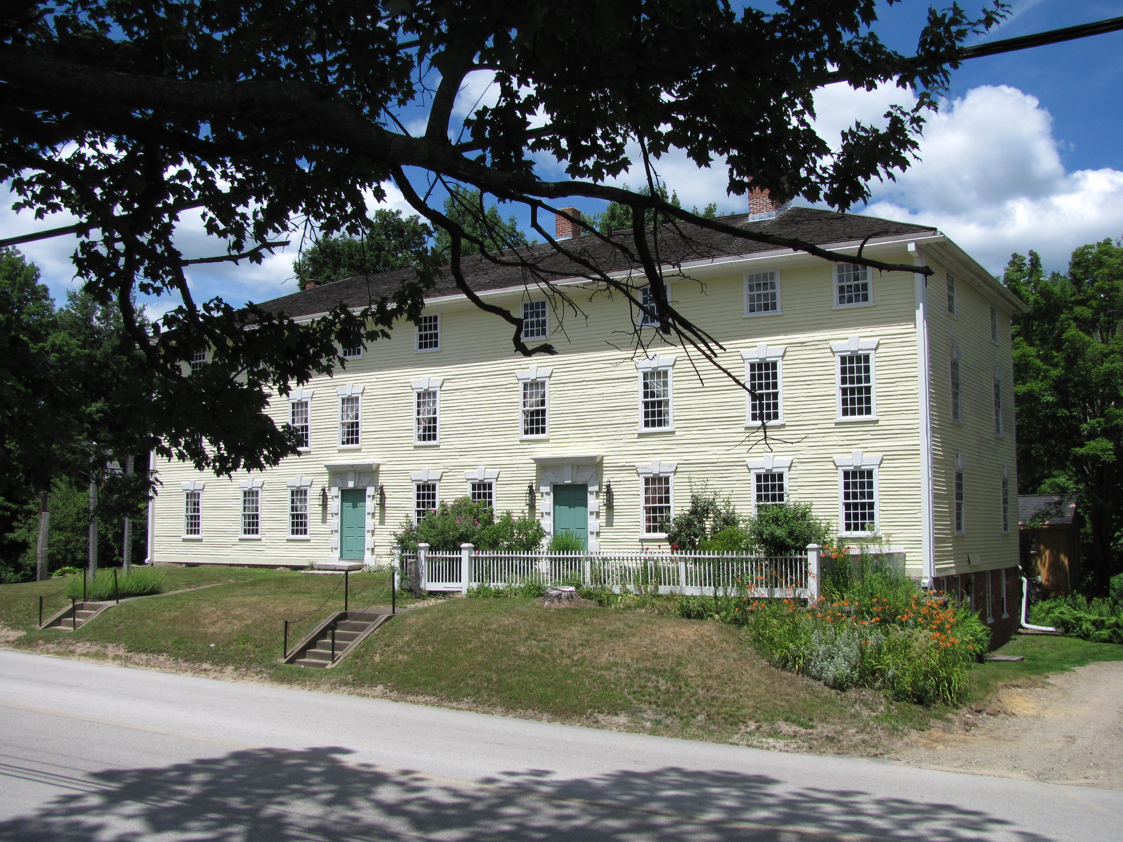 Rider Tavern, Charlton Massachusetts